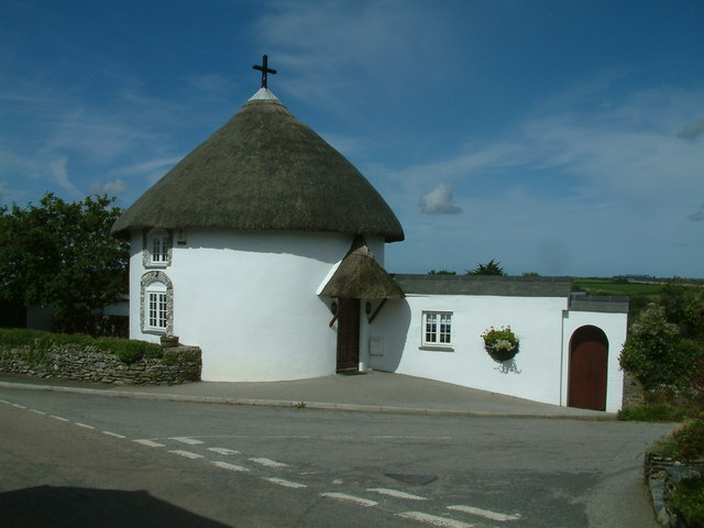 Veryan, One of the Round Houses. Folklore tells us that the Round Houses were built by a Vicar, in order that there were no corners for the Devil to hide in.